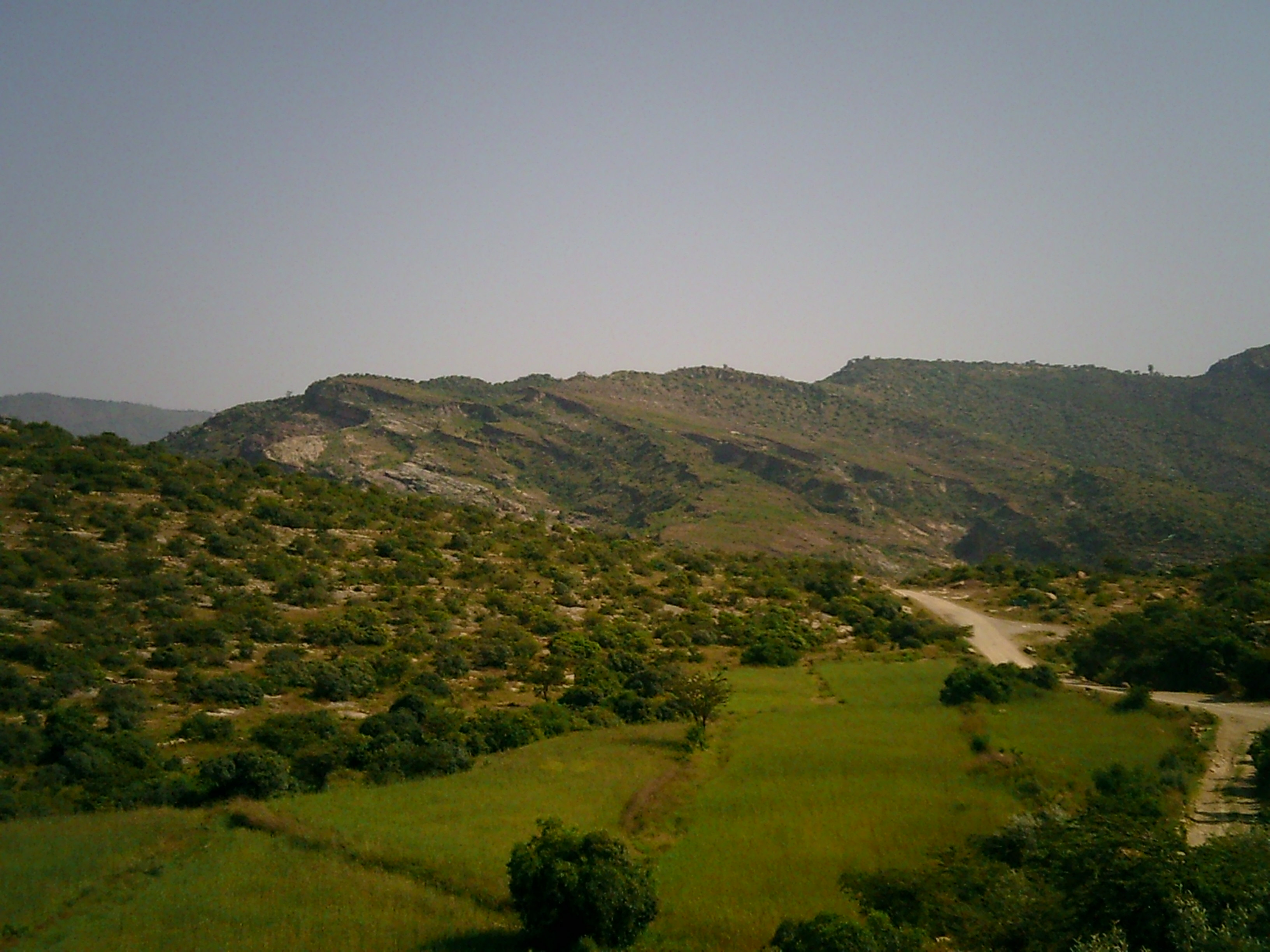 Cuesta landscape on the road from Wukro to Hauzien (2)